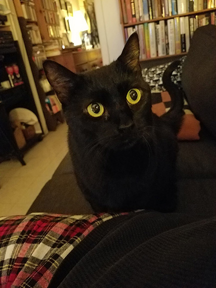 Midnight, a 10-year-old Bombay breed feline.